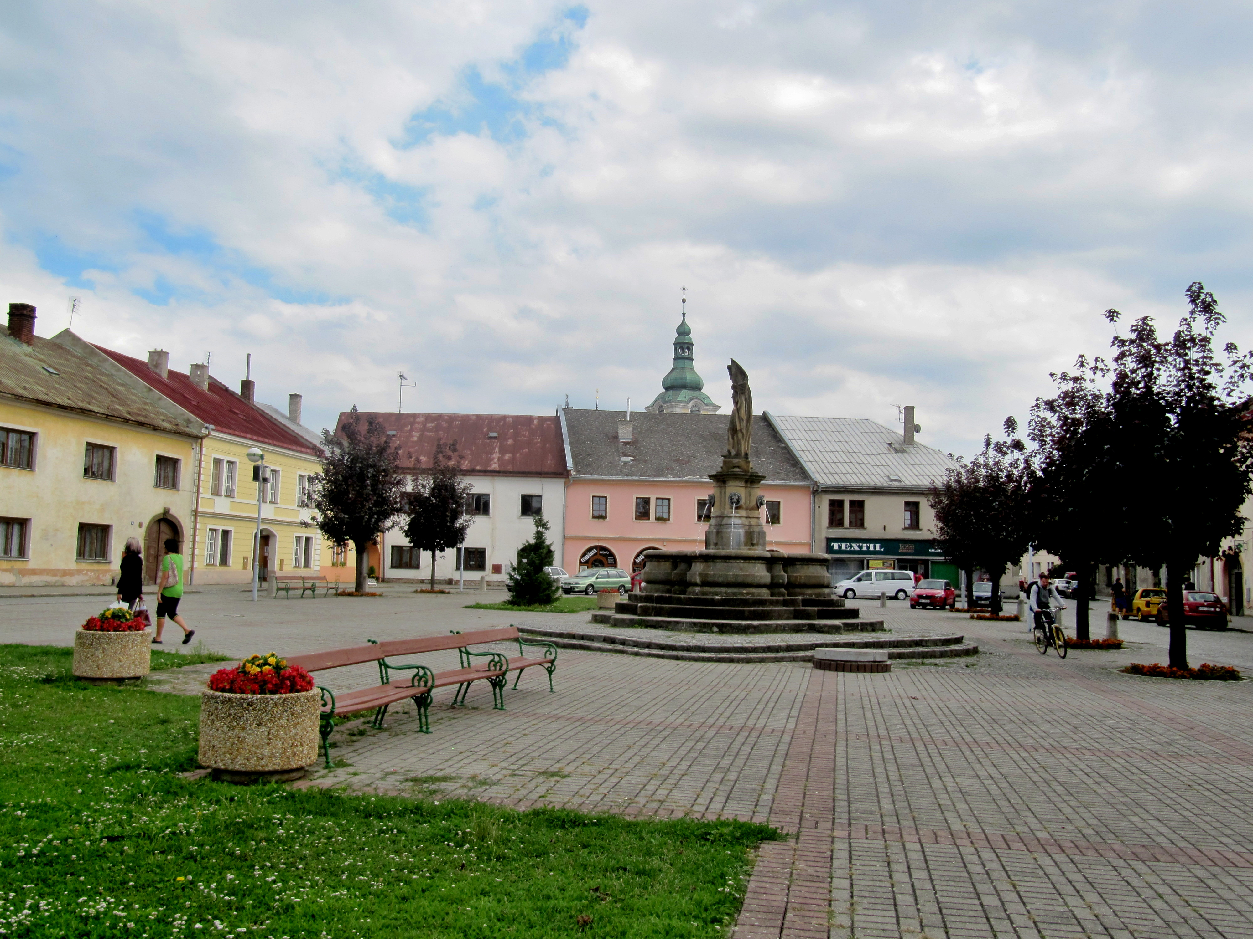 Tovačov, Přerov District, Czech Republic. Square.